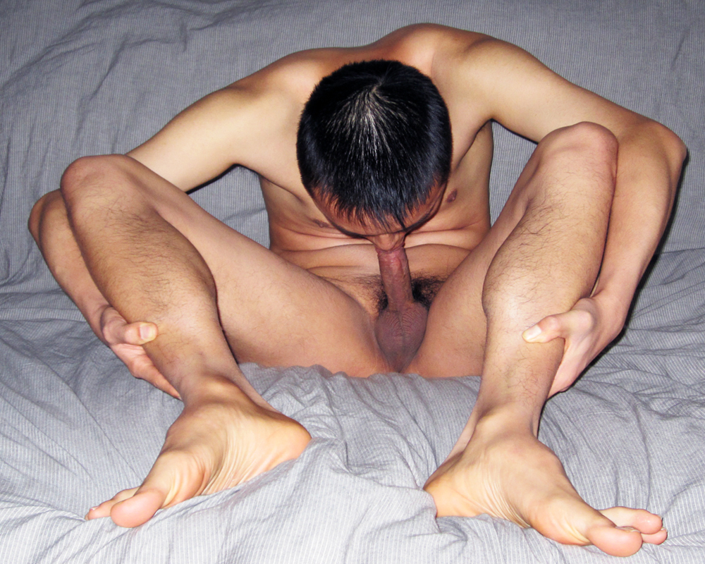 A male human performing autofellatio.